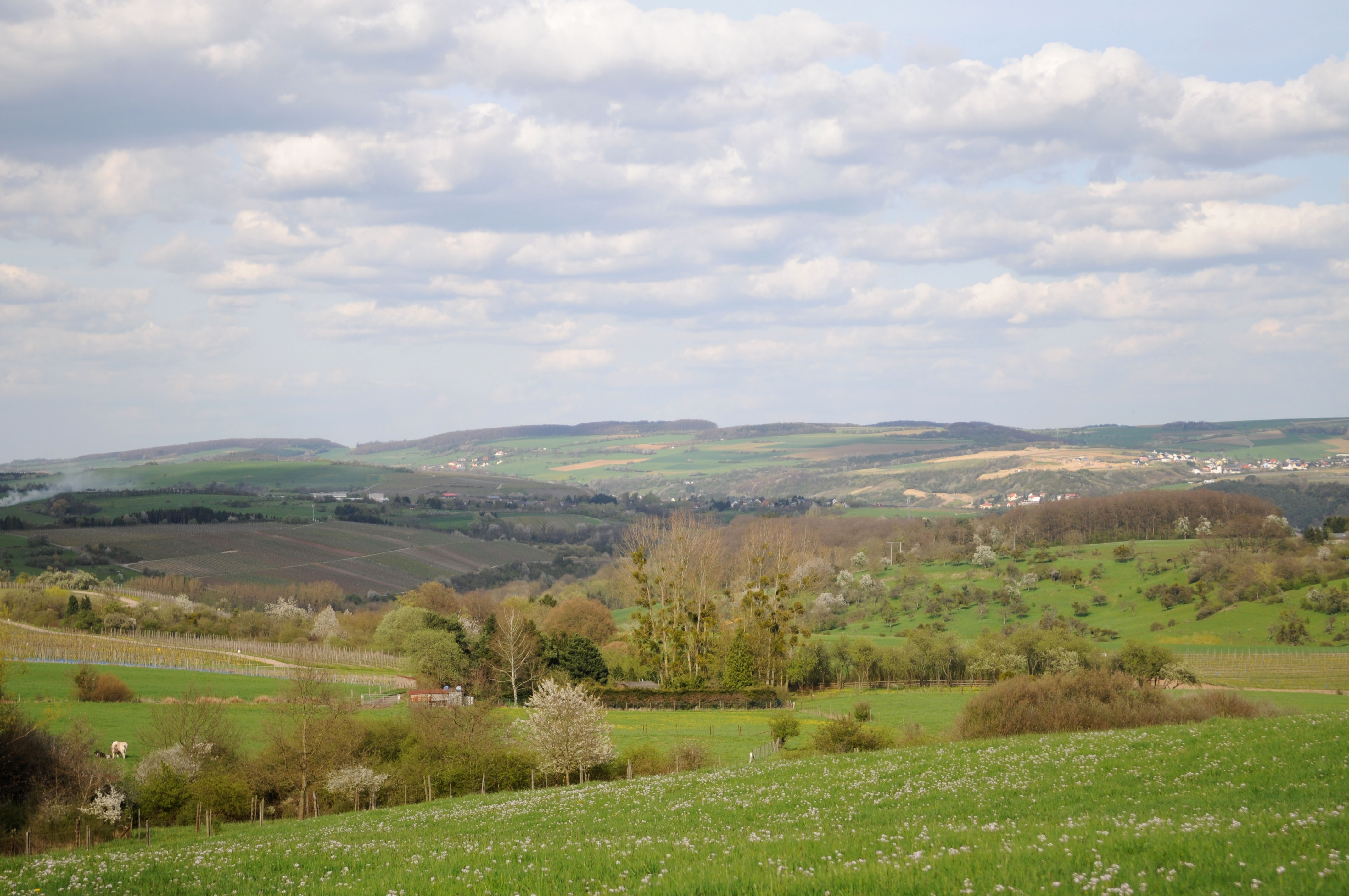 Landscape in the commune of Lenningen, Luxembourg. The camera points to the east, in the direction of the Moselle valley. The remarkable oak at Lenningen is at some 100m in the back of the camera.)